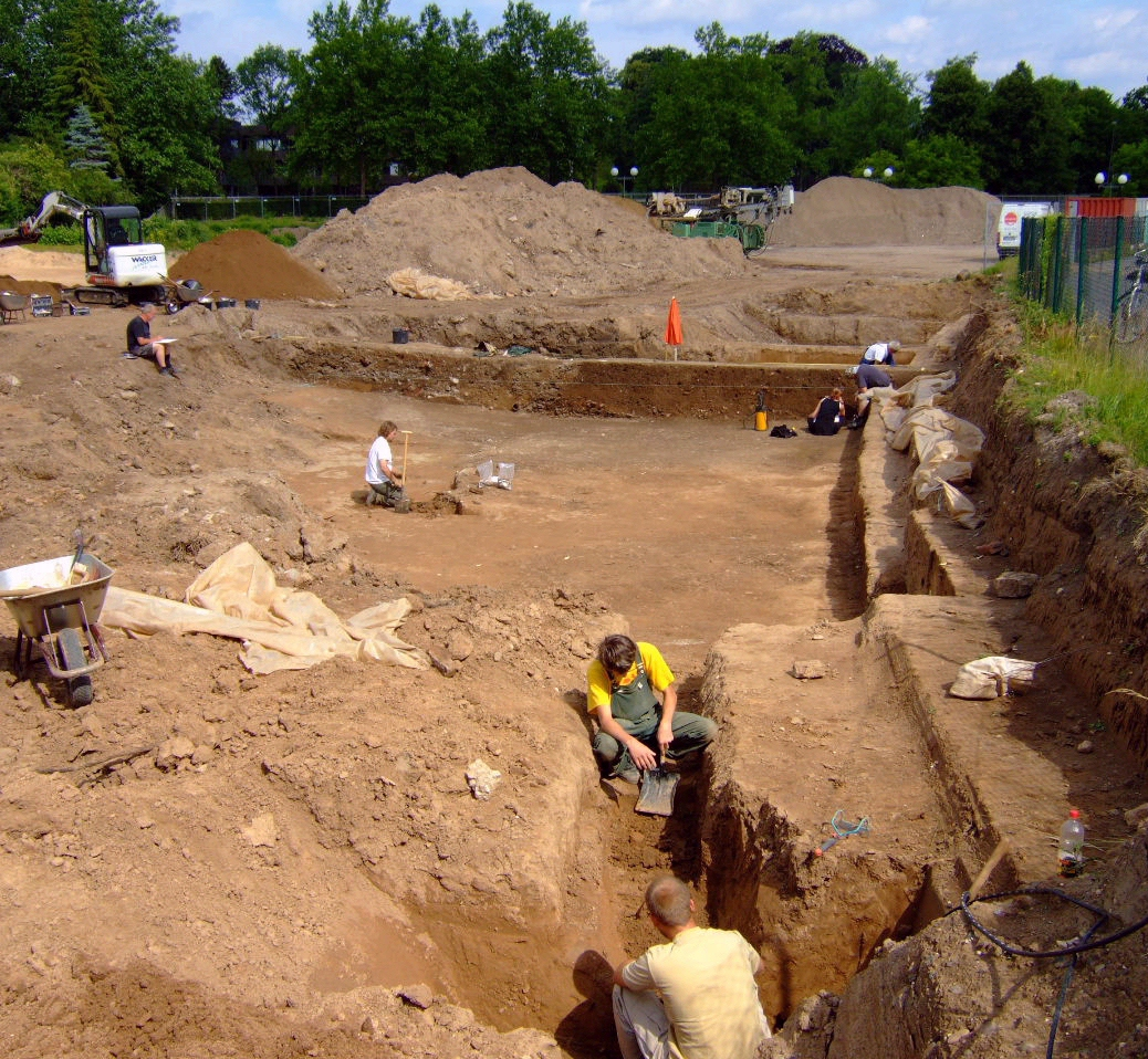 Archaelogical excavations for the extension of the International Congress Center Bundeshaus Bonn (after the extension World Conference Center) in Bonn.